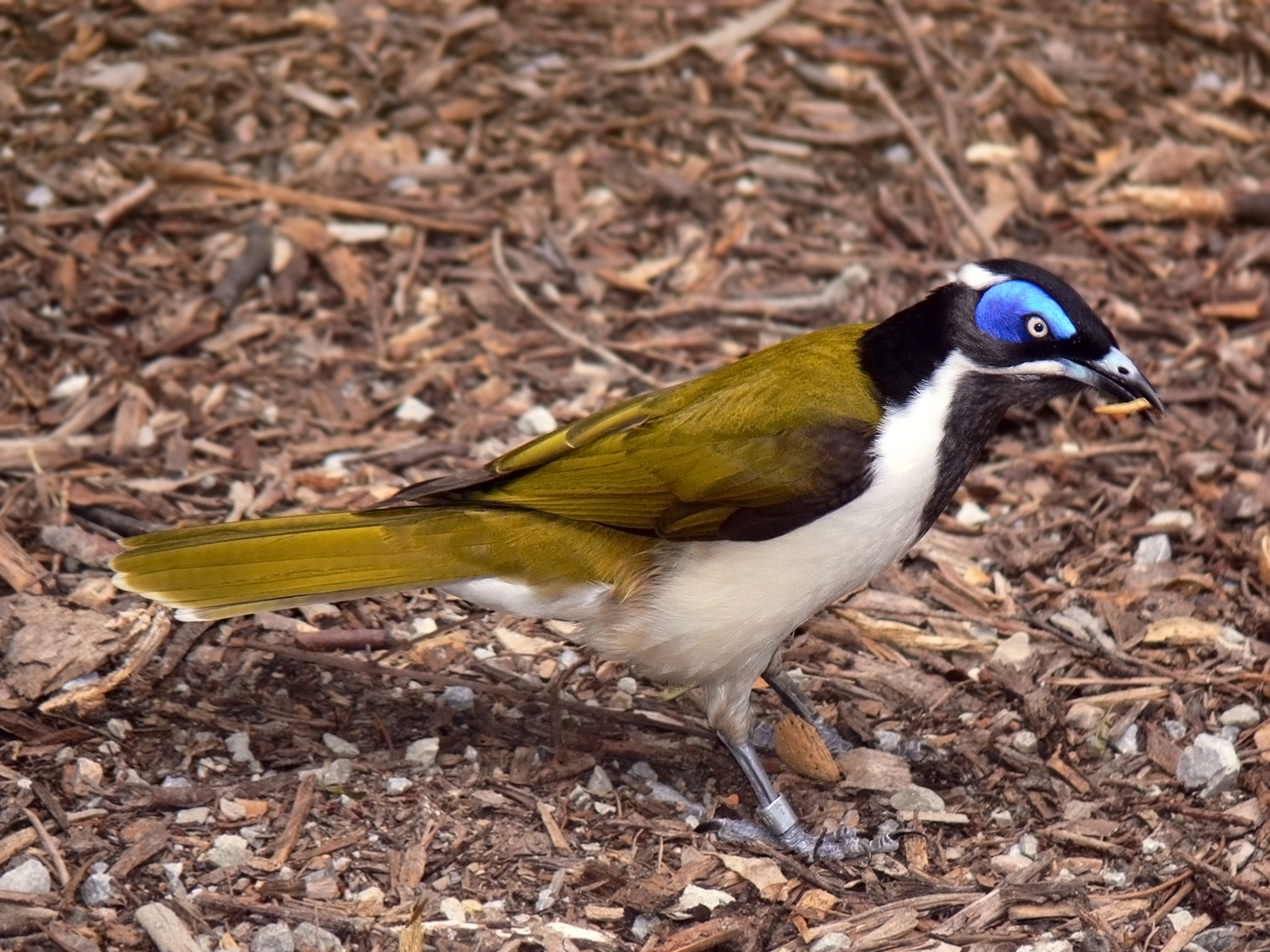 Blue Faced Honeyeater, Entomyzon cyanotis, feeding. Taken in South-eastern Australia.